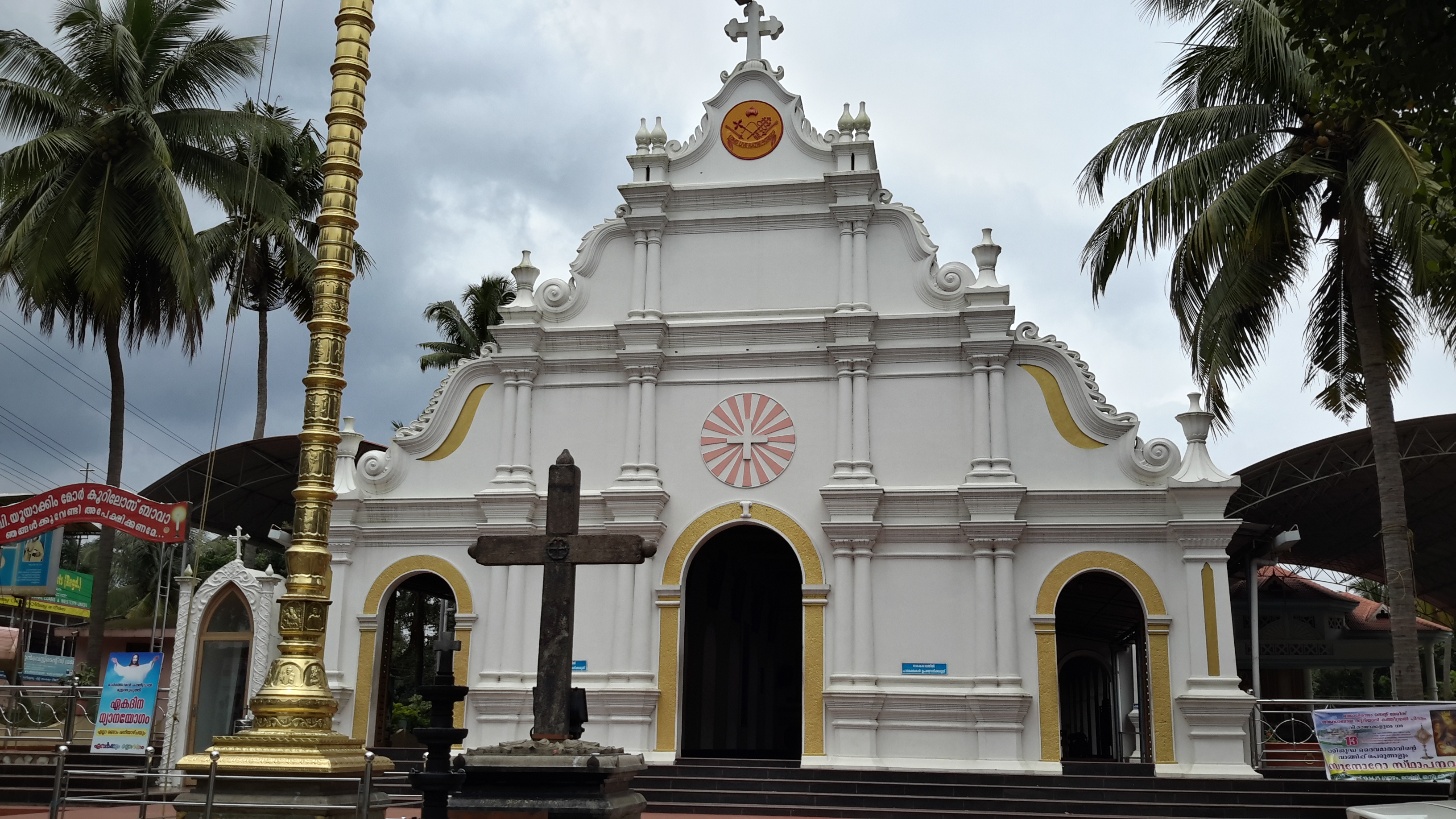 mulanthuruthymarthomanchurch